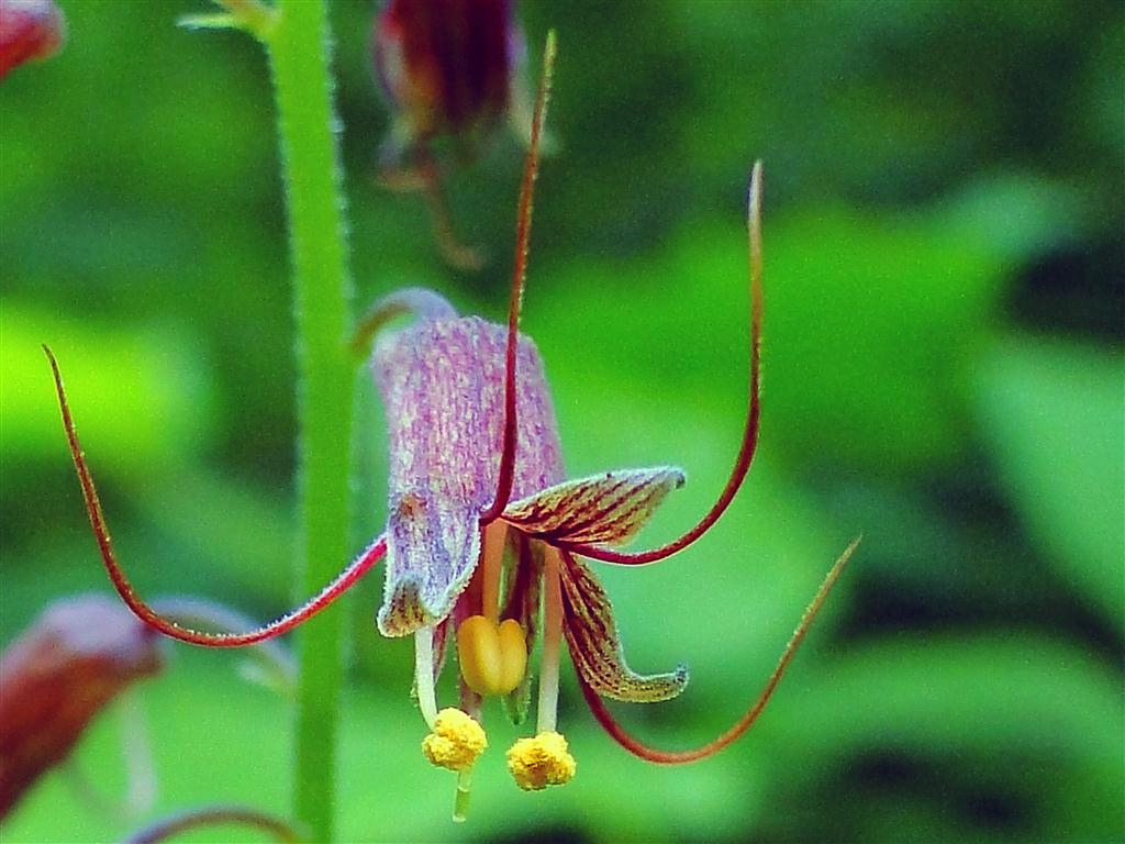 Species Tolmiea menziesii Genus Tolmiea Family Saxifrage flower Common names Piggyback plant, youth-on-age, thousand mothers It is a perennial plant commonly kept as an ornamental. It is native to the west coast of North America, especially in regions dominated by redwoods. It requires moisture and does not tolerate much sun or dry conditions. Photographed 20 kms east of Hope, British Columbia, Canada